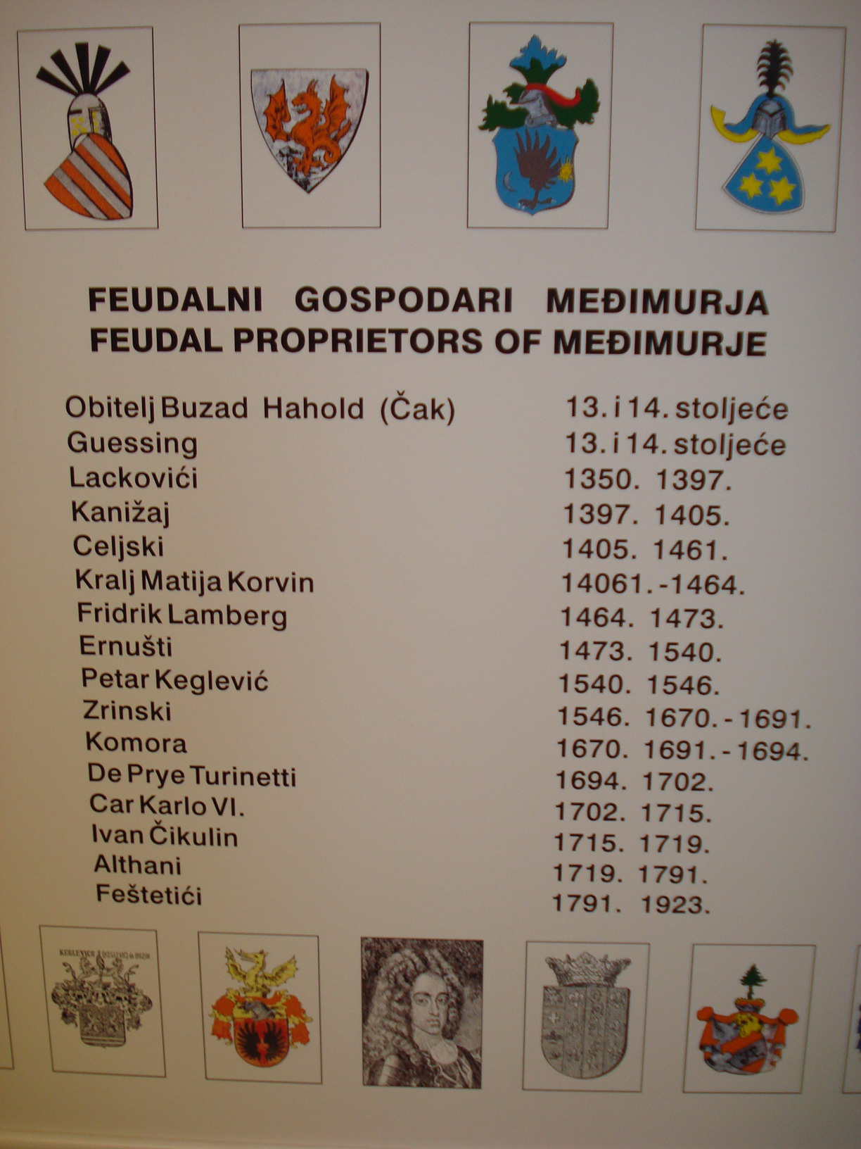 Feudal lords of Međimurje County information board in the Medjimurje County Museum, Čakovec, Croatia